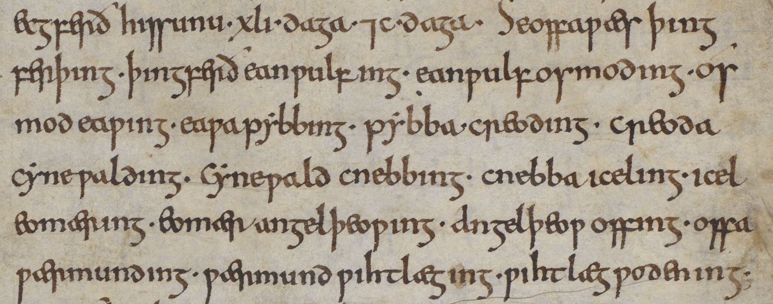 Offa's ancestors; from the Anglo-Saxon Chronicle.